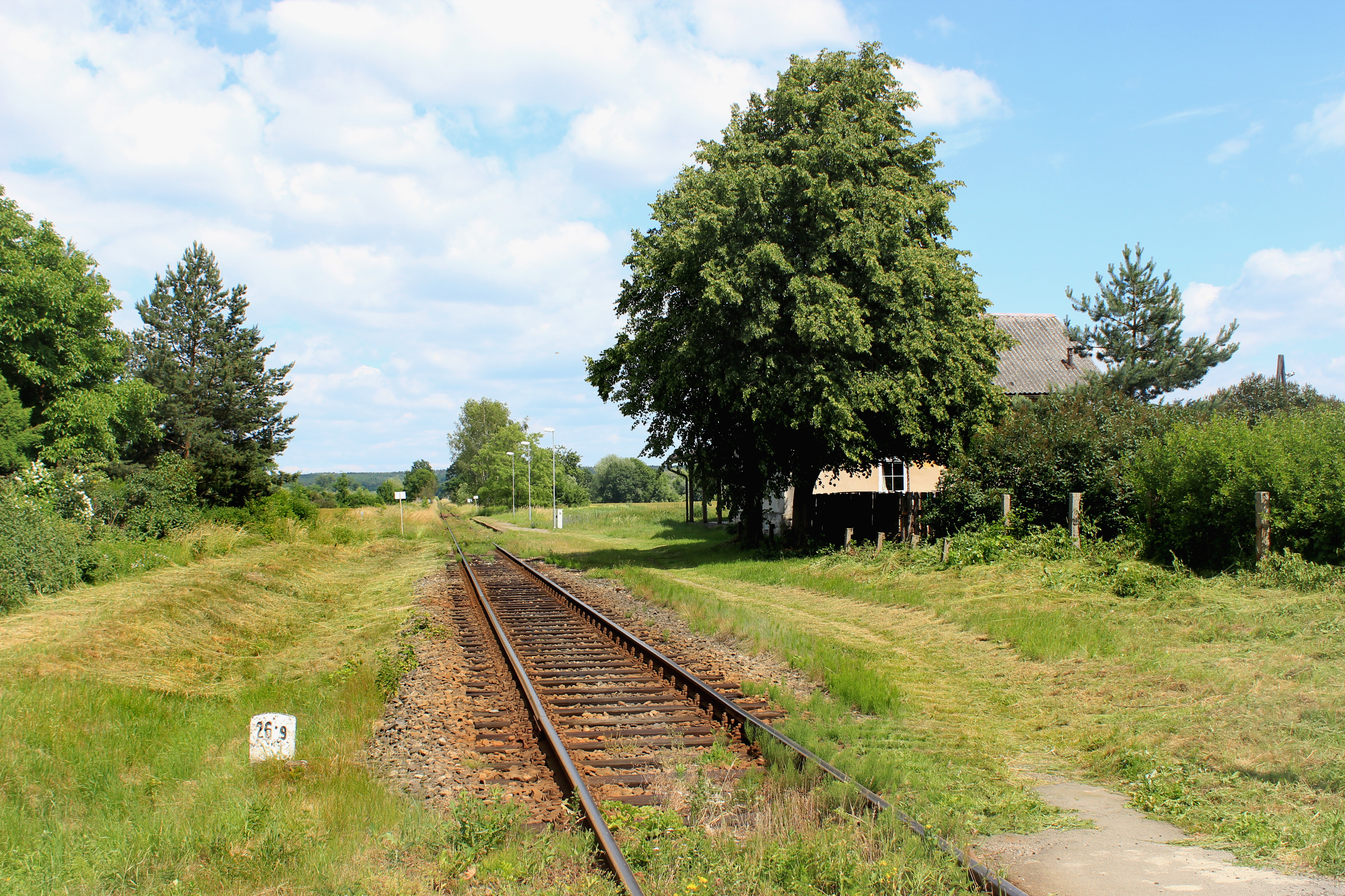 Train stop in Dlouhá Lhota, Czech Republic.